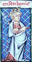 Ensenhamen personified as a king in the 14th-century chansonnier Breviar d'amor of Matfre Ermengau.